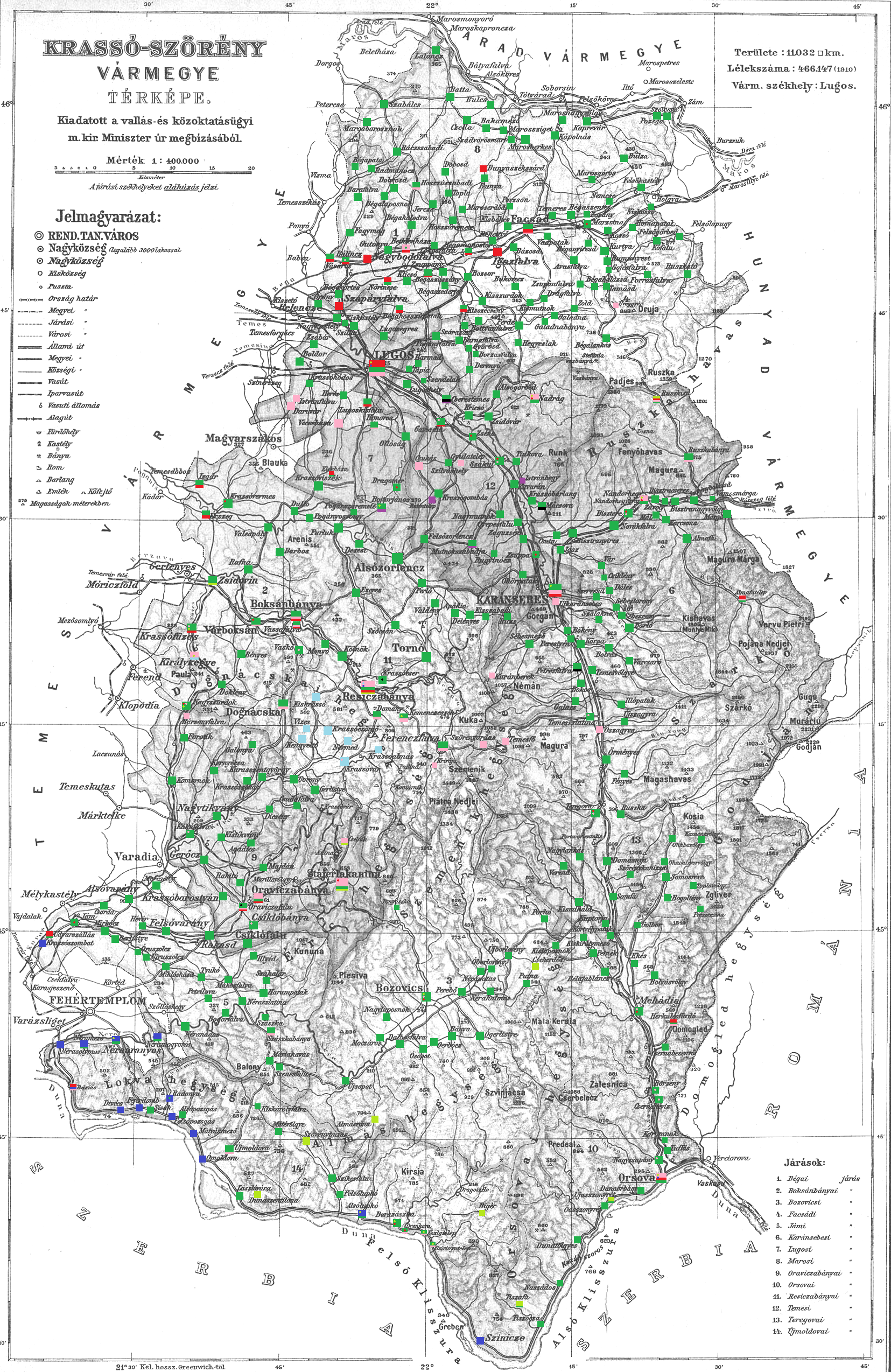 Ethnic map of the county (with data of the 1910 census). Key: dark green - Romanians; pink - Germans; dark blue - Serbs; red - Hungarians; light green - Czechs or Slovaks; light blue - Krashovani, violet - Ruthenians; black - Roma. Coloured dots in plain rectangles imply the presence of smaller minority populations (generally more than 100 people or 10%). Multicoloured rectangles imply cities and villages with multi-ethnic populations with the order of the stripes following the ethnic composition of the settlement.